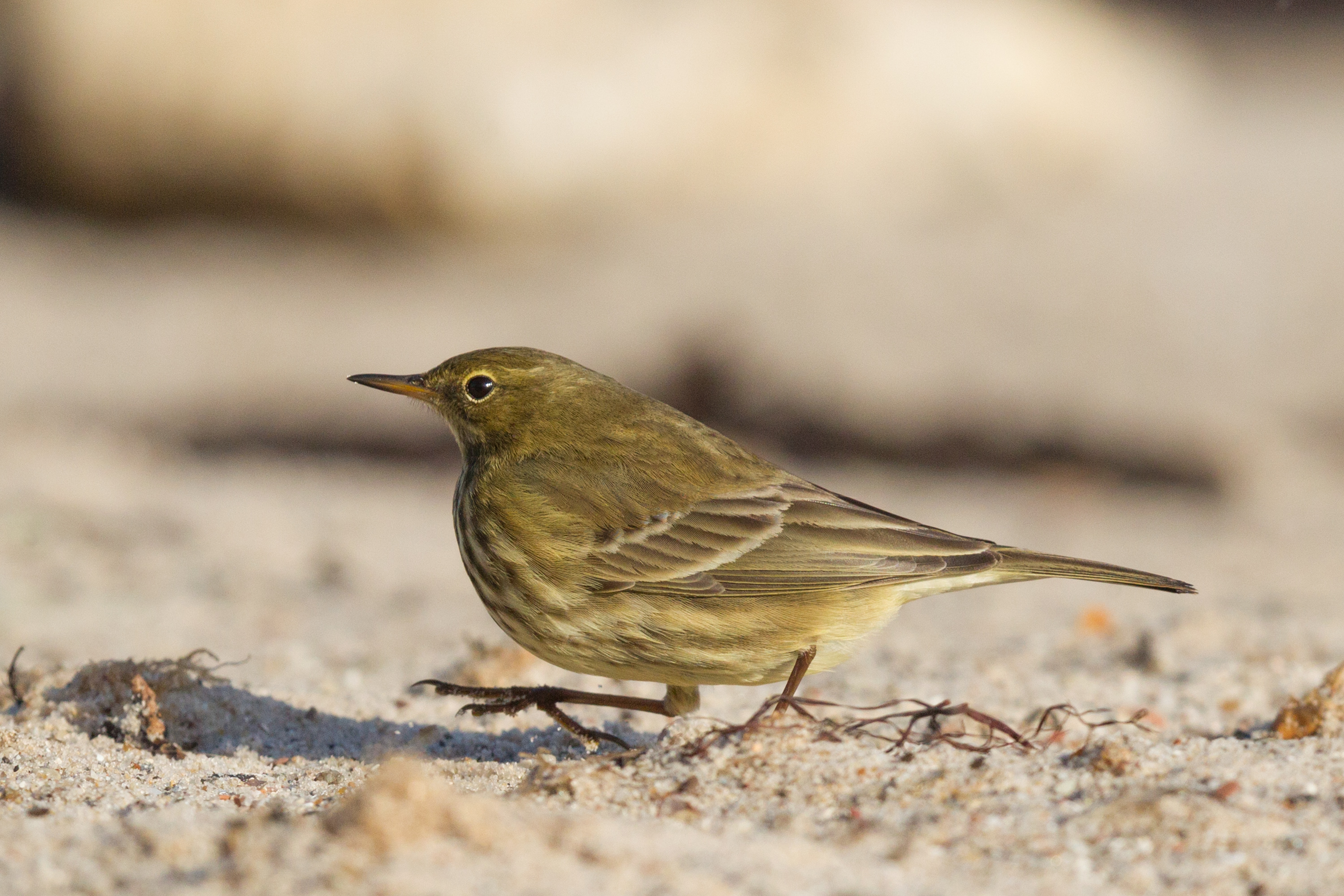 Eurasian rock pipit